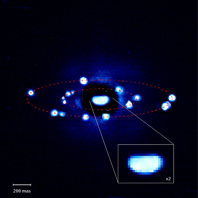 Composite image showing the positions of Remus and Romulus around 87 Sylvia on 9 different nights as seen on NACO images. It clearly reveals the orbits of the two moonlets. The inset shows the potato shape of 87 Sylvia. The field of view is 2 arcsec. North is up and East is left.